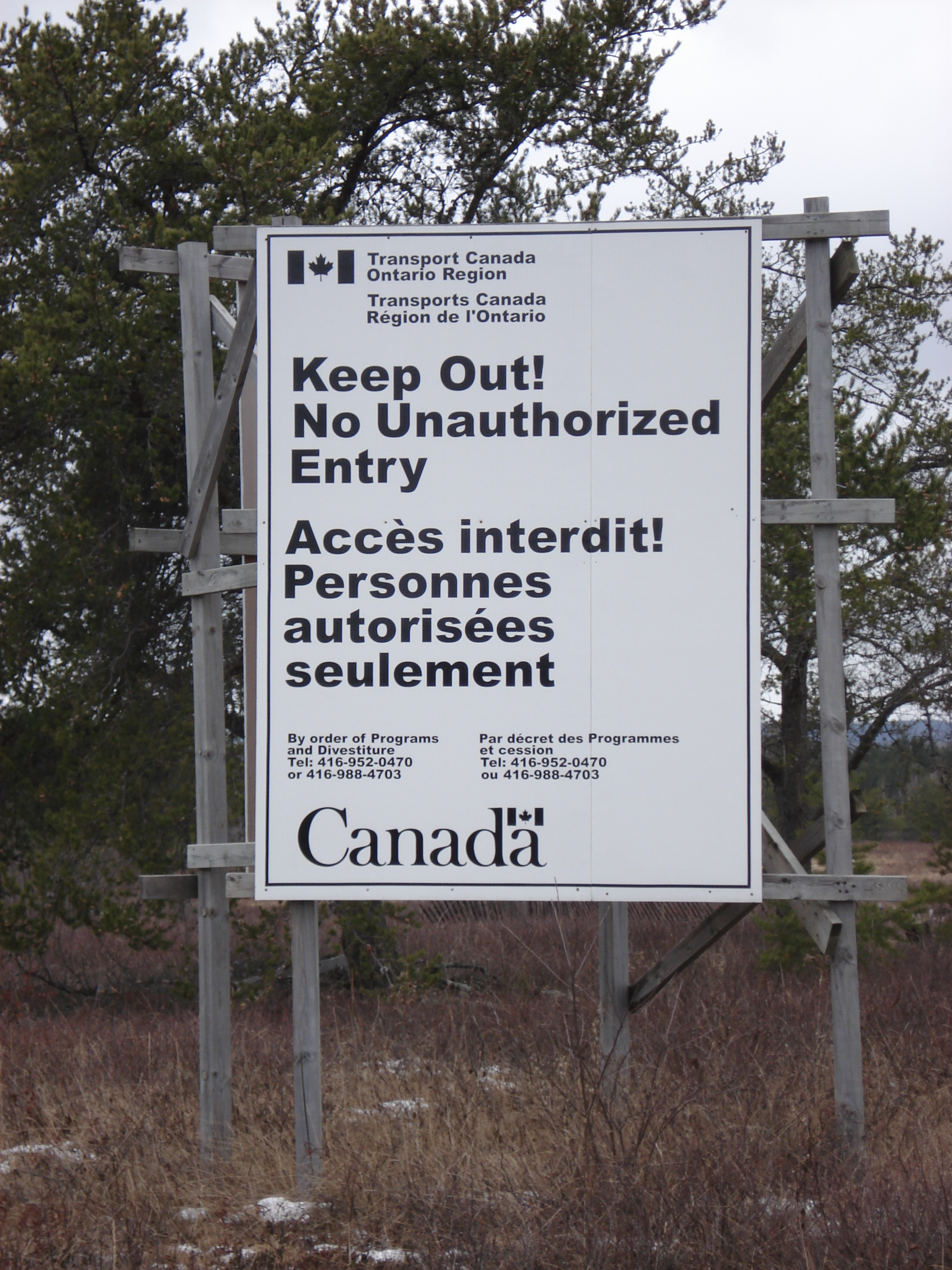 Sign at the Bonnechere Airport warning against trespassing - near Pembroke, Ontario, Canada.